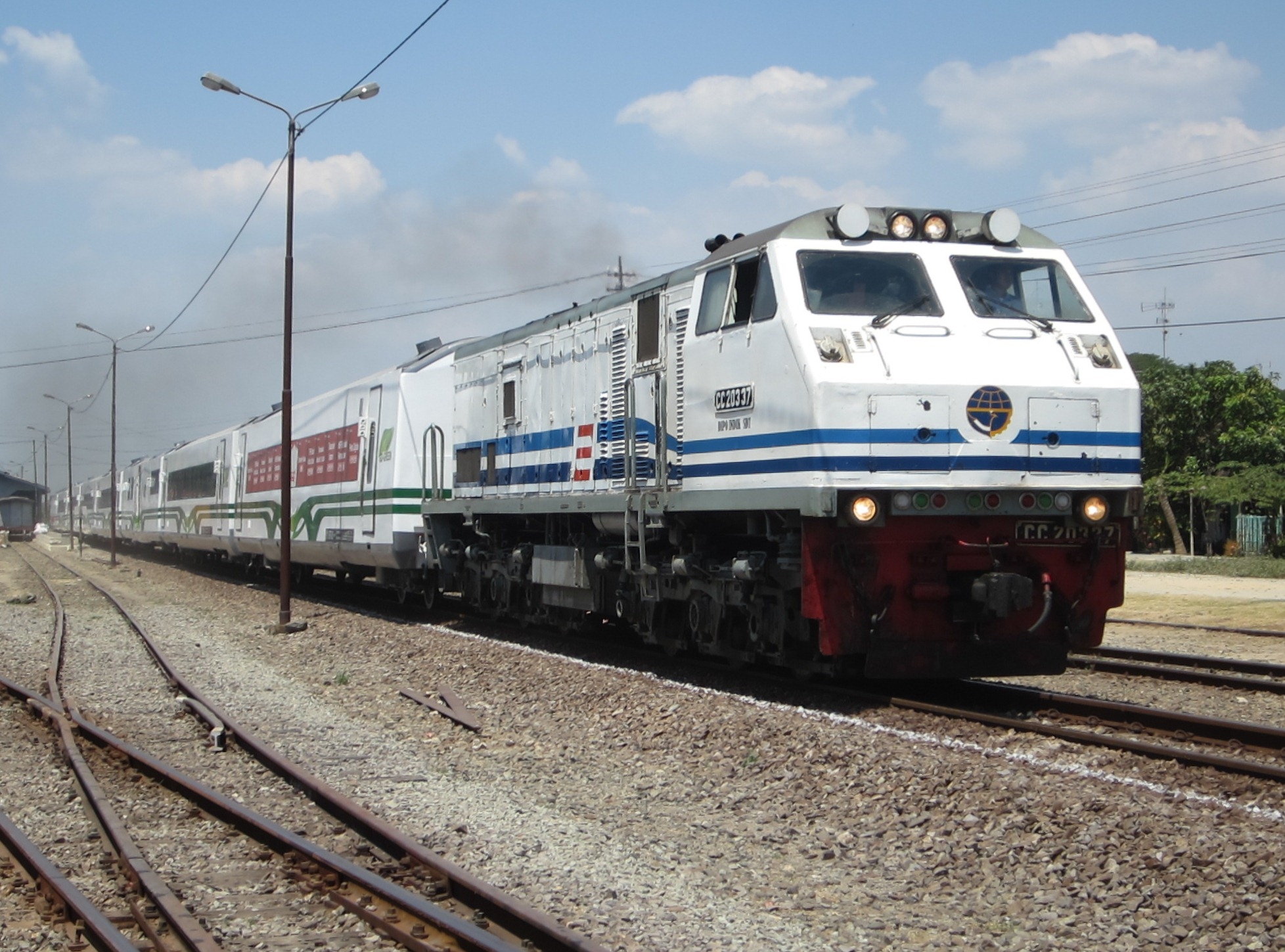 Argo Bromo Anggrek (Orchid Bromo Mountain) "Go Green" Train westbound to Jakarta passing Bojonegoro Railway Station.